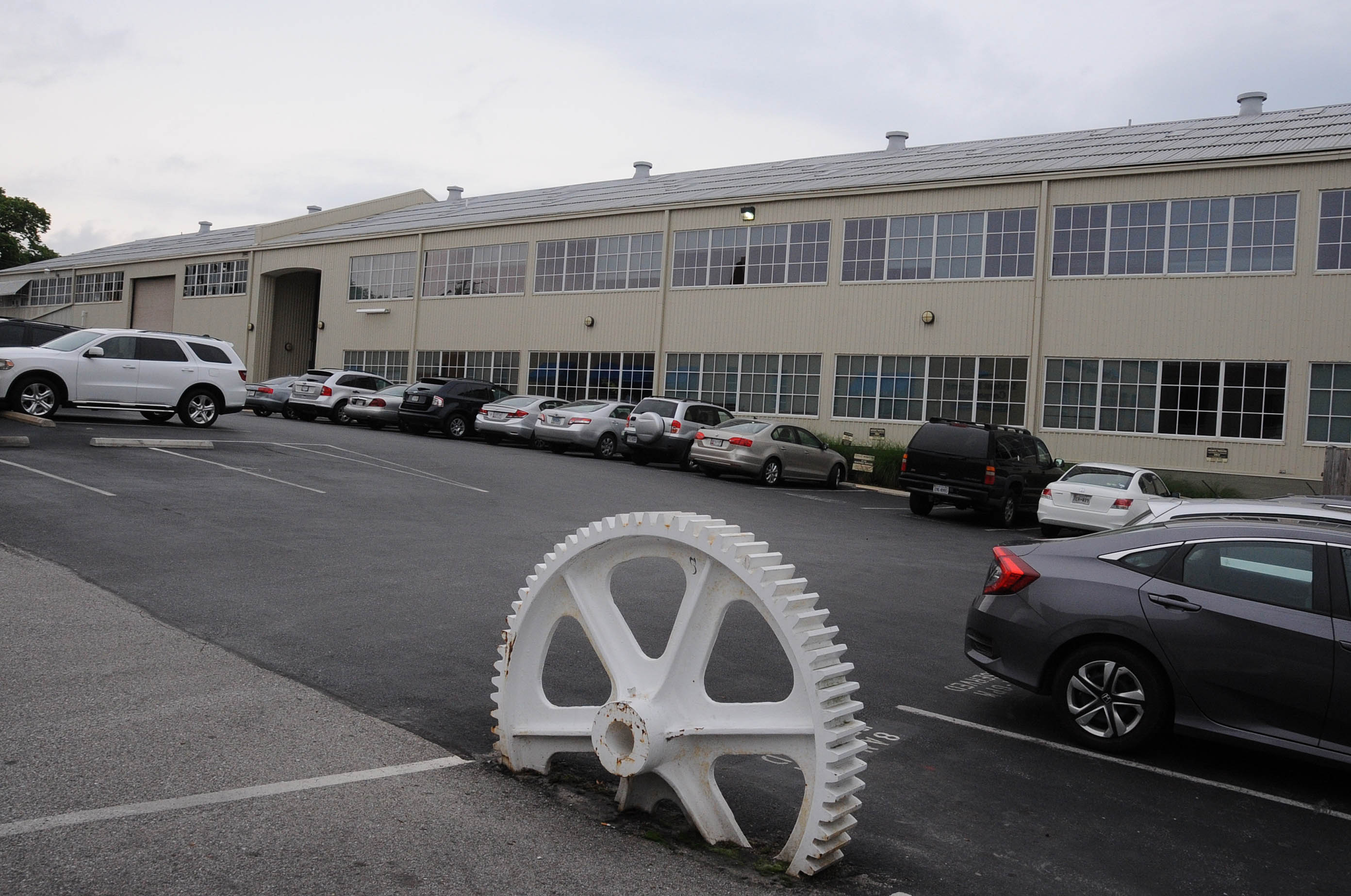 GROUP OF HISTORIC BUILDINGS AT ANNAPOLIS, ANNE ARUNDEL COUNTY, MARYLAND. IT USED TO BE A BOAT-BUILDING AND REPAIR COMPLEX. MOST OF THE BUILDINGS WERE BUILT BETWEEN 1913 AND 1942 TO SUPPORT THE BOAT-BUILDING AND REPAIR ACTIVITY OF CHANCE MARINE CONSTRUCTION CORPORATION AND ITS SUCCESSORS, ANNAPOLIS YACHT YARDS AND TRUMPY & SONS